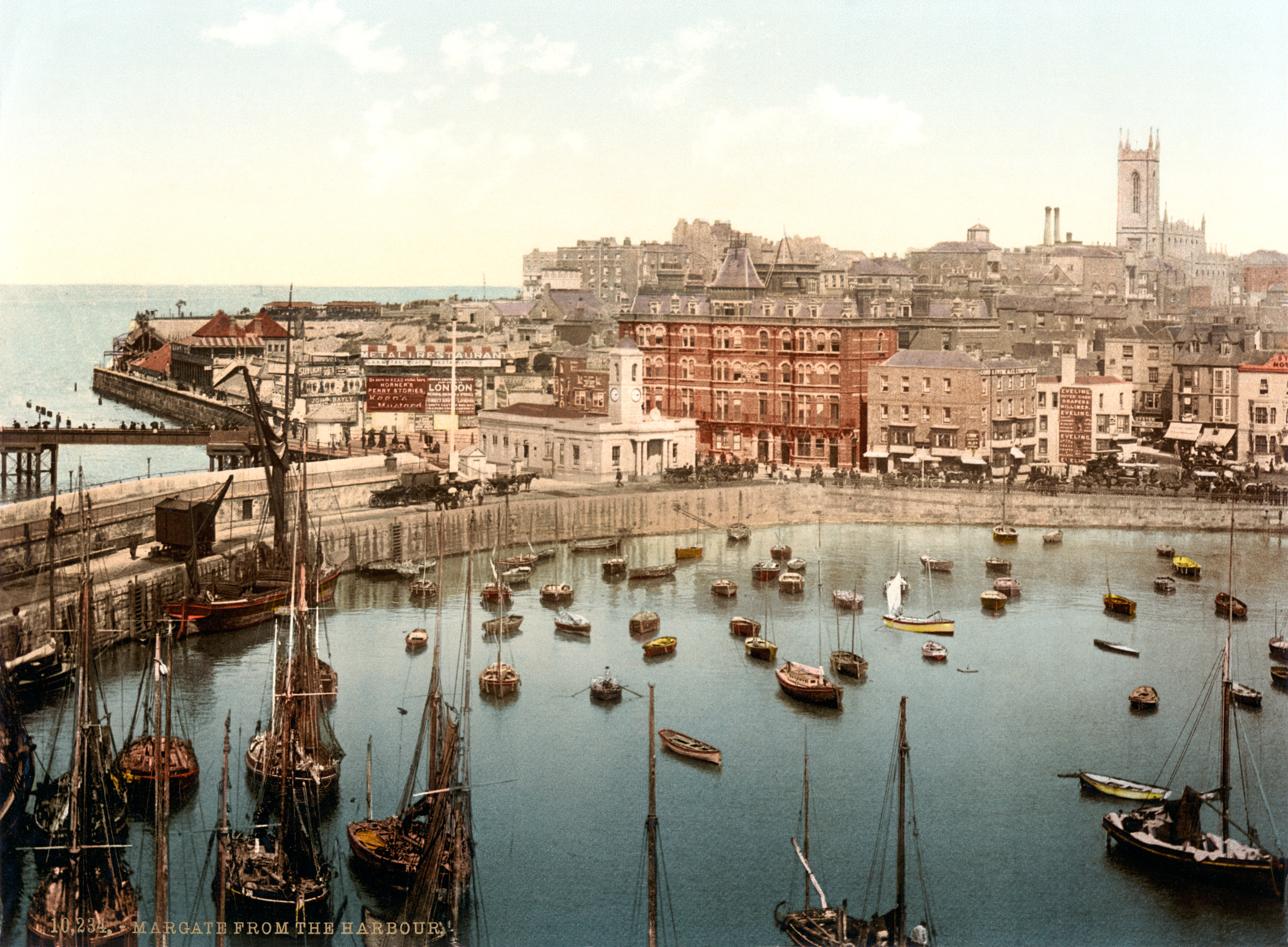 10234 Margate, Kent, England, from the harbour.